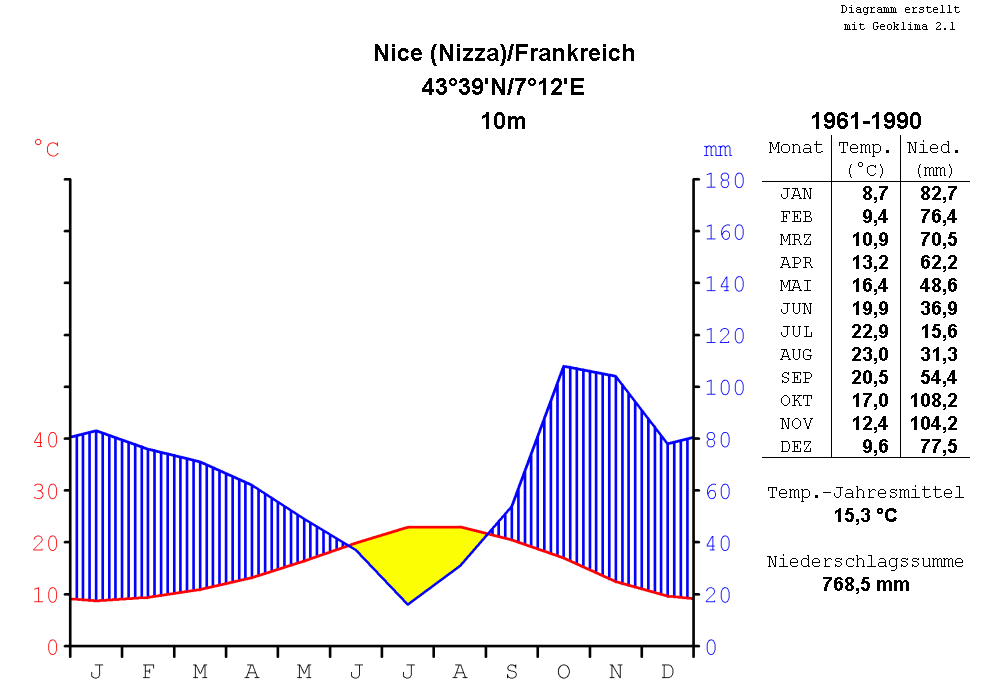 climate chart of Nice, France, for the period of time from 1961 to 1990, in the format by Walter and Lieth, metric, °Celsius and millimeters, chart made with Geoklima 2.1, label in German